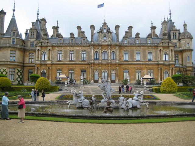 Waddesdon Manor This is the rear façade of the main building of the manor looking across the fountain in the middle of the parterre garden. When Baron Ferdinand de Rothschild selected this location for his chateau the elevated land was known as Lodgehill, and the 1885 Edition of the Ordnance Survey mapping gives that name to the building which was at that time still under construction.